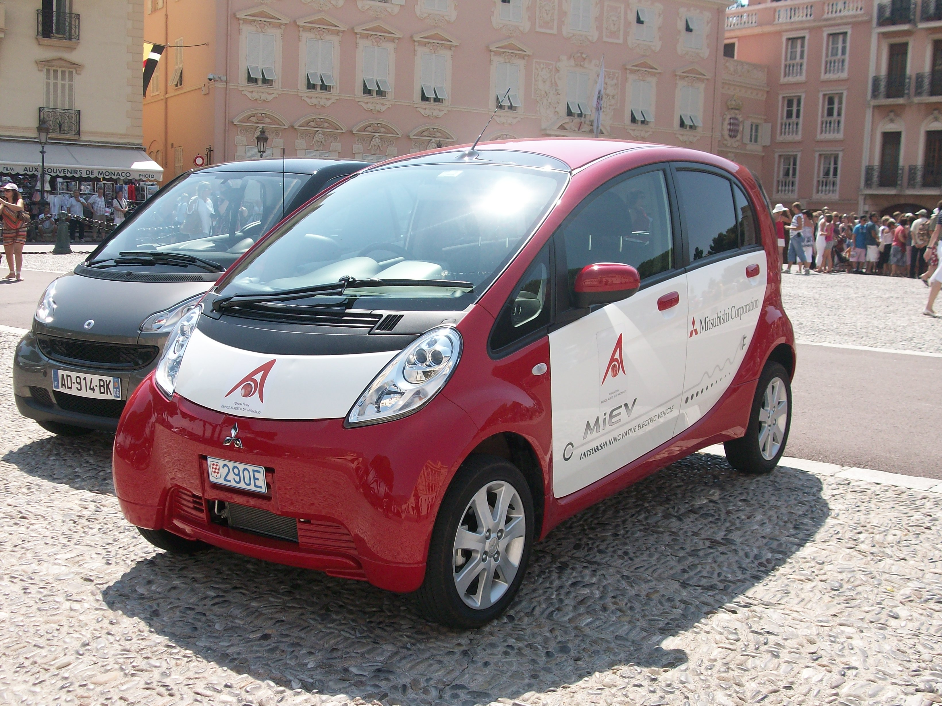 A Mitsubishi MiEV seen in Monaco in front of the prince's palace